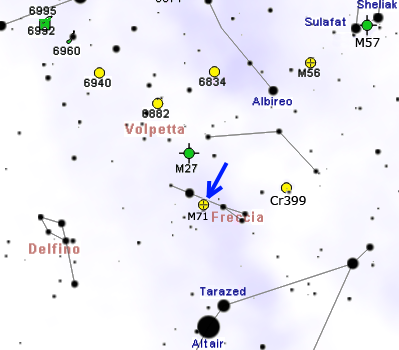 Map of M71